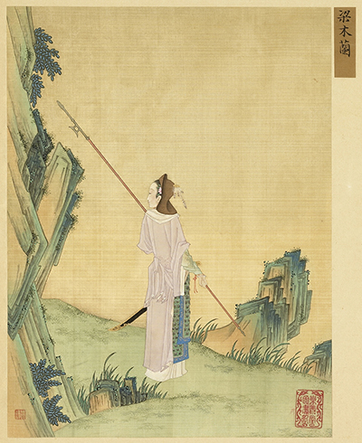 This painting depicts Mulan (木蘭).